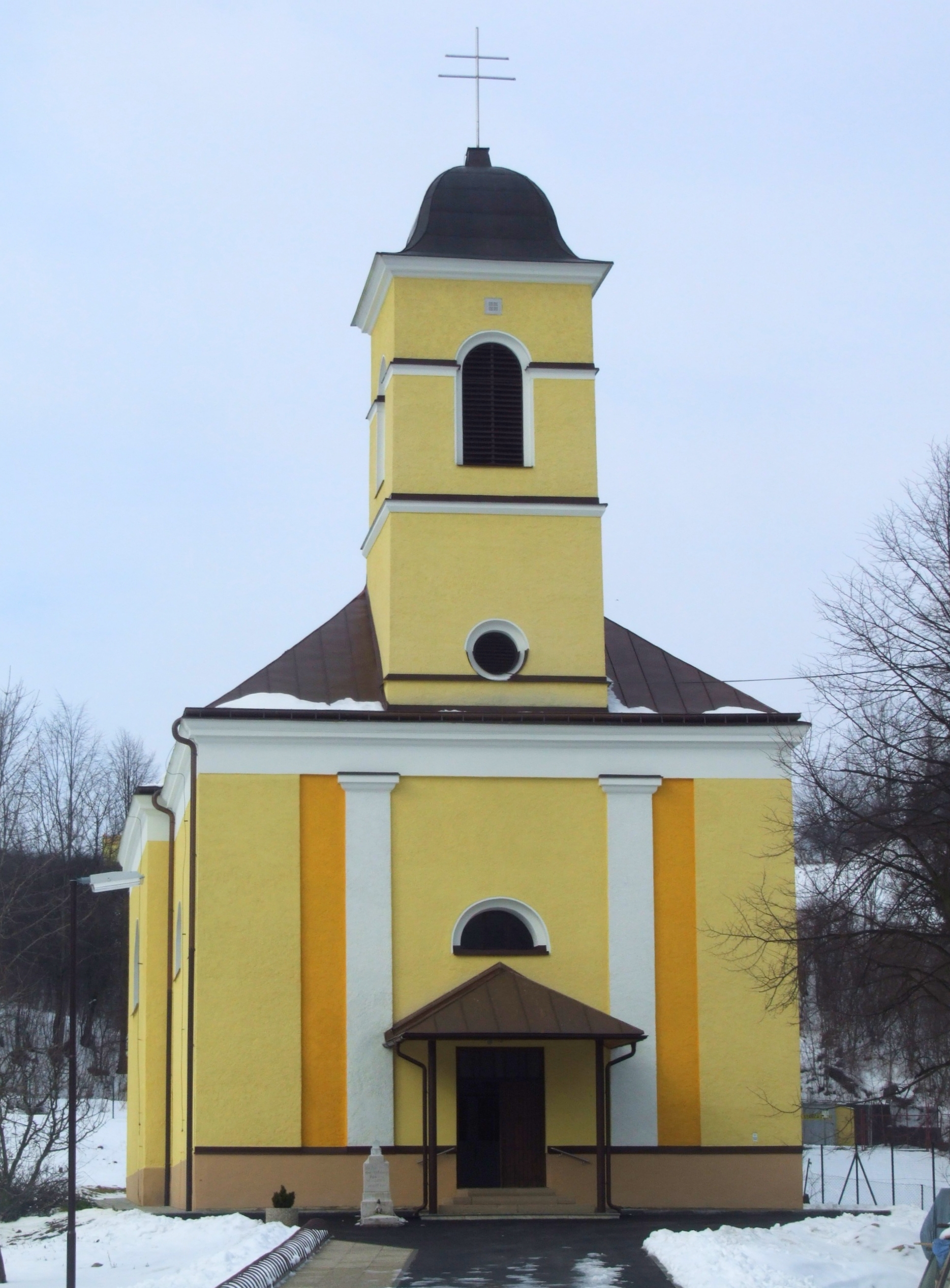 Church in Strečno, Slovakia Ślůnski: Kośćůł we wśi Strečno, Słowacyjo